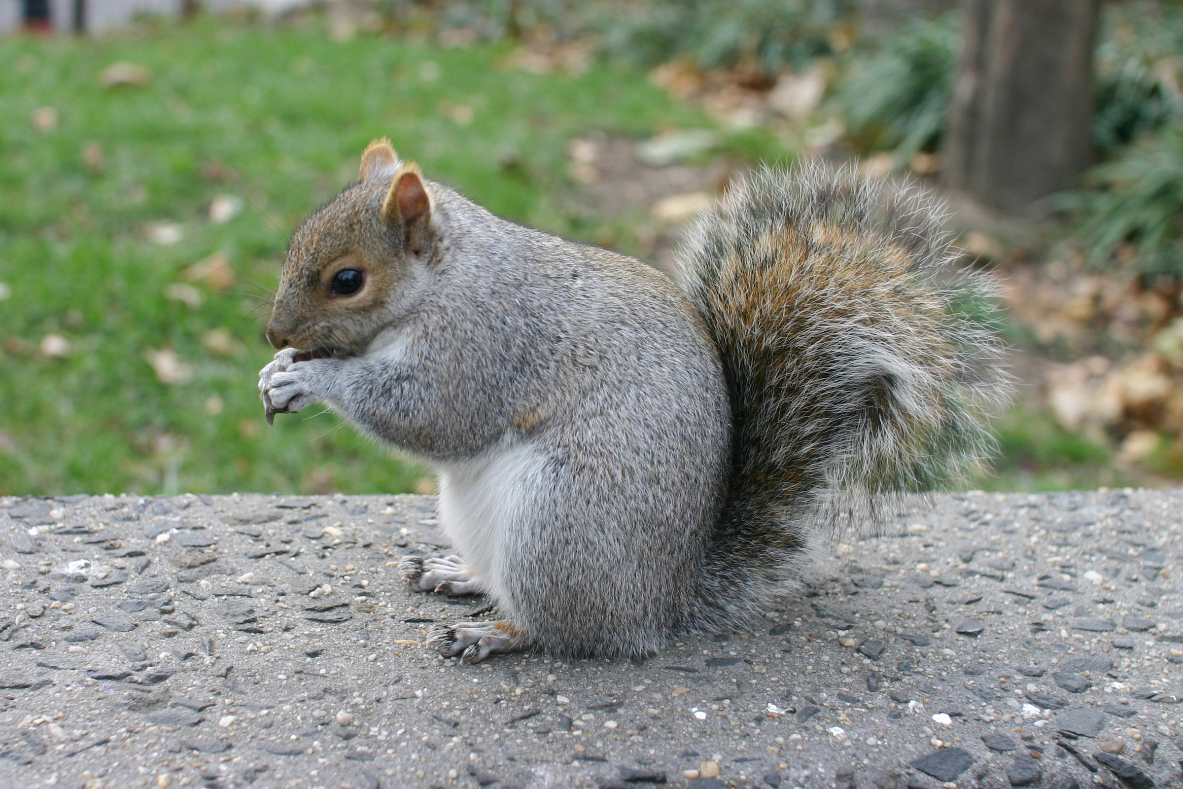 Eastern Gray Squirrel